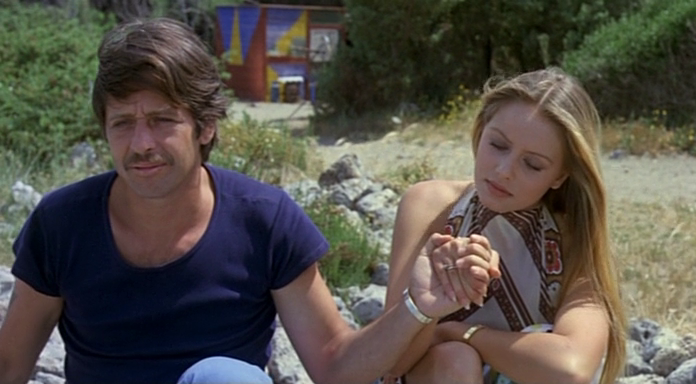 Italian actors Corrado Pani and Gloria Guida